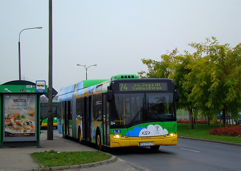 Solaris Urbino 18 Hybrid II (Allison) bus (#1890, reg. PO 911JT) in Poznań, Poland. Built 2008, MPK Poznań operator.